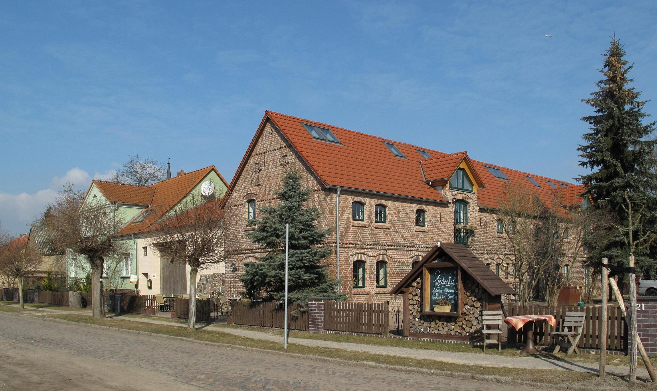 Listed farmstead in Stücken, today restaurant and guest house Fliederhof. Stücken is a part of Michendorf in the district Potsdam-Mittelmark, state Brandenburg, Germany.